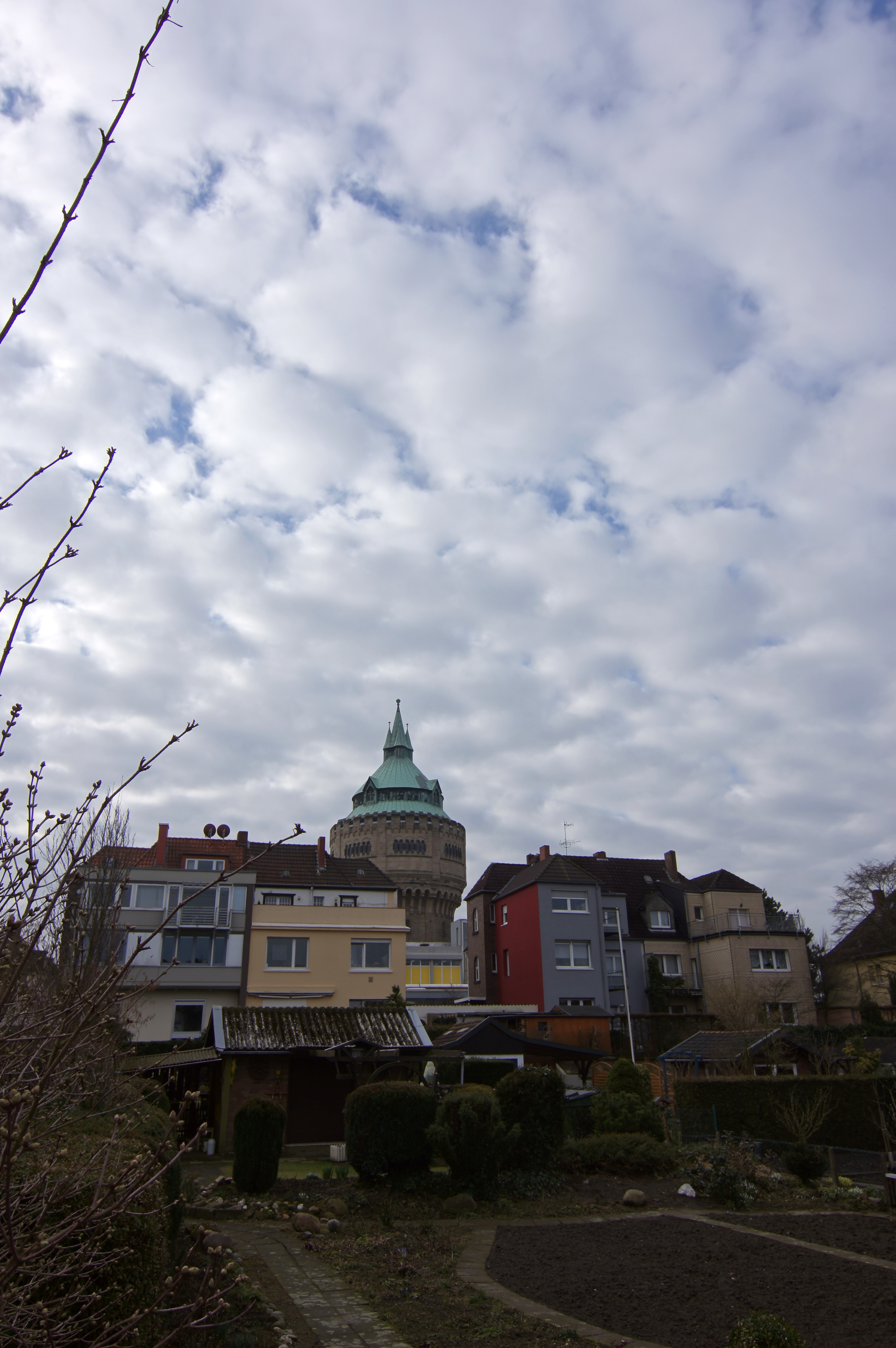 A look to the water tower "Auf der Geist" in Münster from the allotment garden "Neuer Krug". The water tower was build from 1900 to 1903. The architects were Merkens and Drießen.